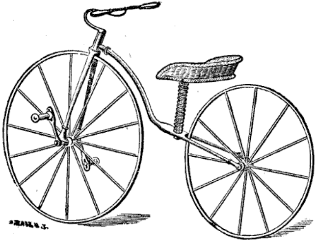 Velocipede for Ladies by Pickering and Davis, New York. Engraving from Google's scan of The velocipede: its history, varieties, and practice, author J. T. Goddard, page 85 in chapter Velocipedes for Ladies.